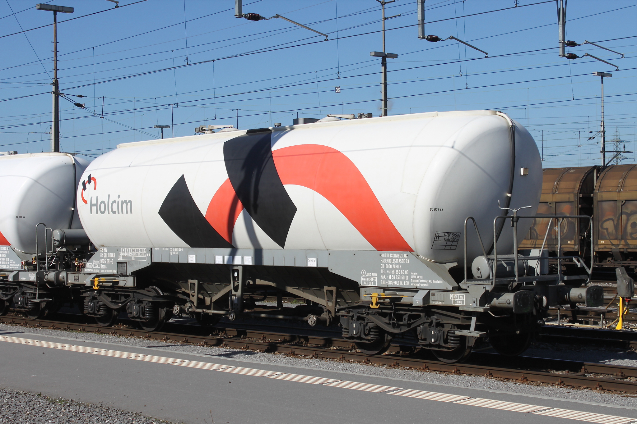 Uacns 33 85 9326 091-6 CH-HOLCH at Buchs SG train station.